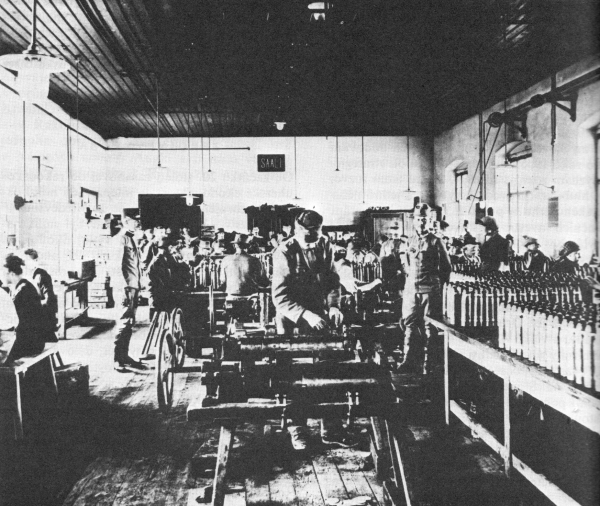 Production of artillery ammunition in Škoda Works